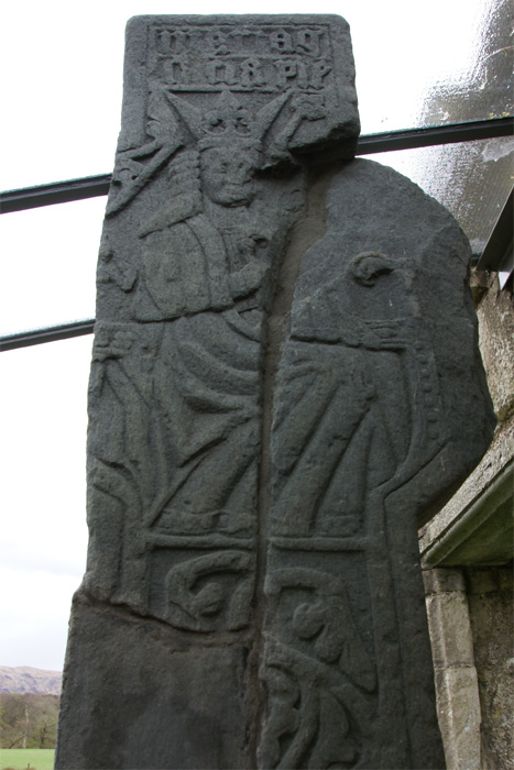 Ardchattan Priory, Argyll and Bute, Scotland - MacDougall Cross (back)